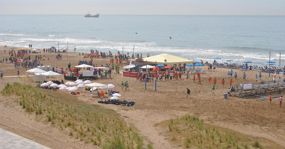 Castelldefels Rugby Seven Beach 2010